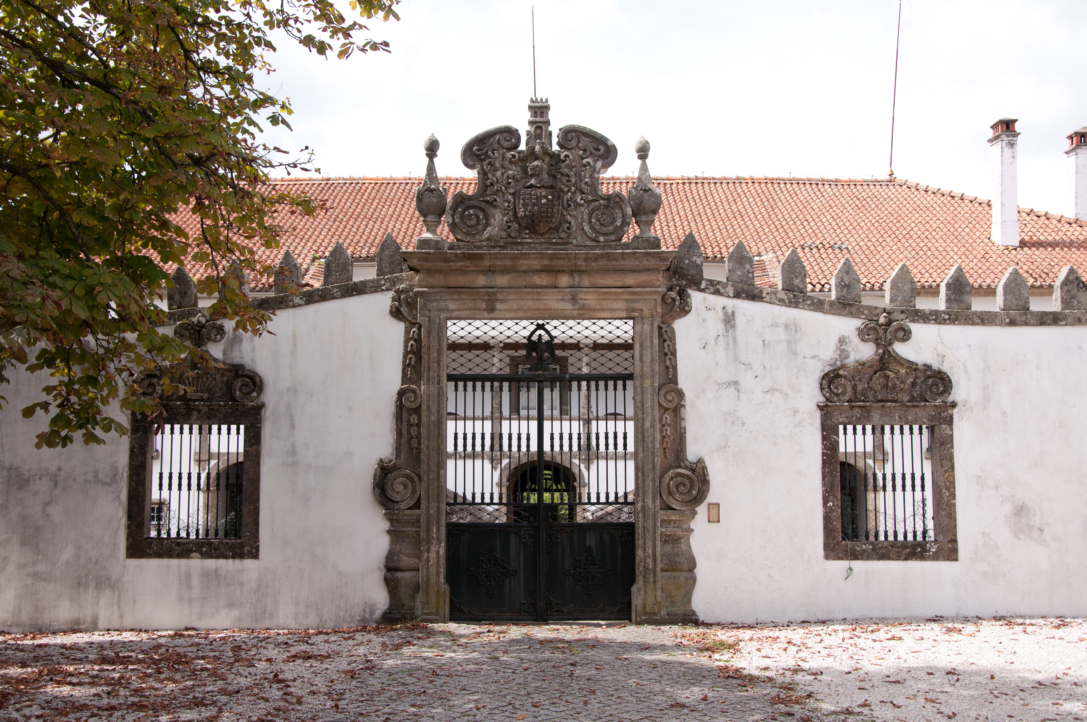 This file was uploaded for Wiki Loves Monuments in Portugal with the unique identifier 73207.